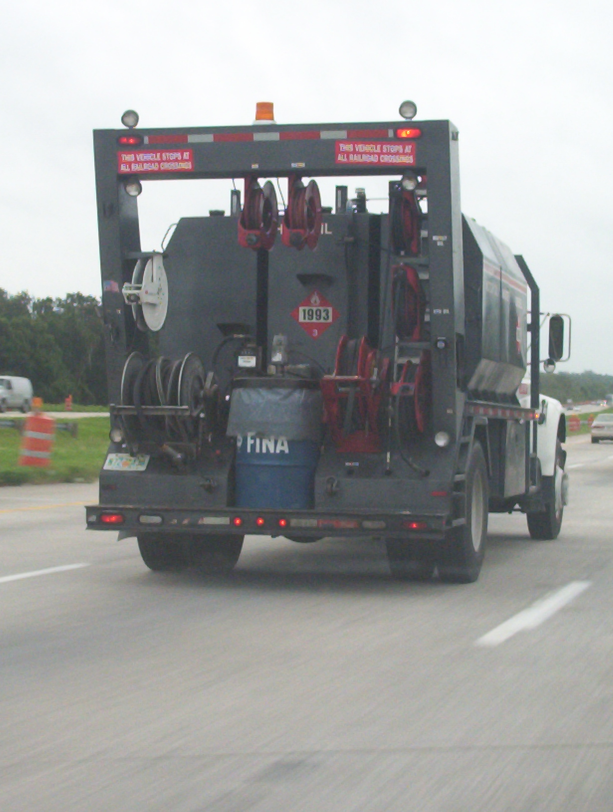 Hazmatspotting is one of my hobbies: when I see a truck with a hazardous-materials placard, I check the number against the Emergency Response Guidebook (I keep a list on my PDA, adding details about when and where I first spotted it). This truck is carrying diesel fuel, although #1993 is a bit of a catchall -- it can include "liquid disinfectant, n.o.s. (not otherwise specified)", "cosmetics, n.o.s.", "drugs, n.o.s.", etc. This is okay because you'd respond to a spill of any of these things in roughly the same way.